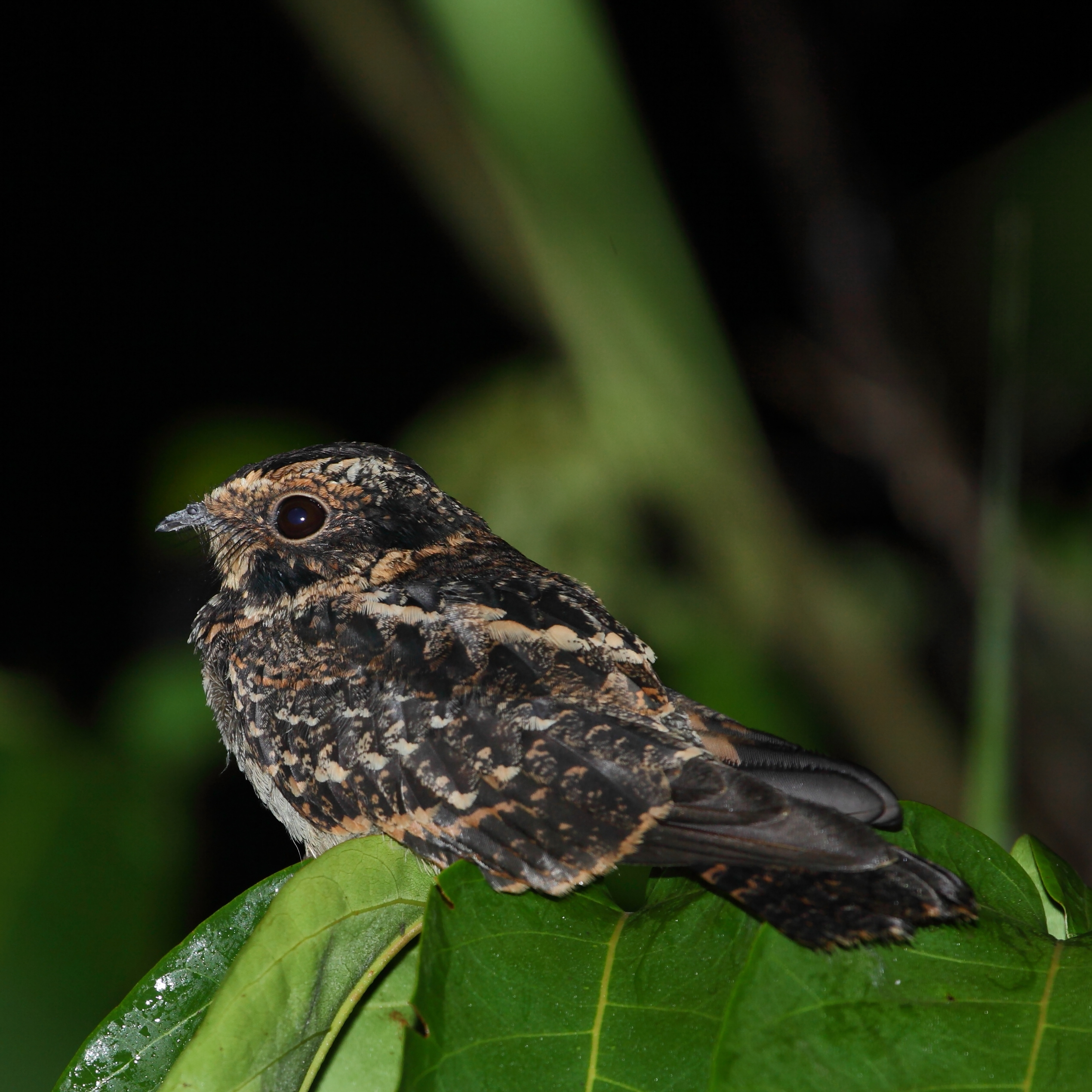 Spot-tailed Nightjar at Apiacás - MT - Brazil